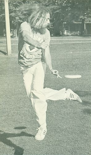 Ken Westerfield performing Fisbee shows for Molson's at universities in Canada